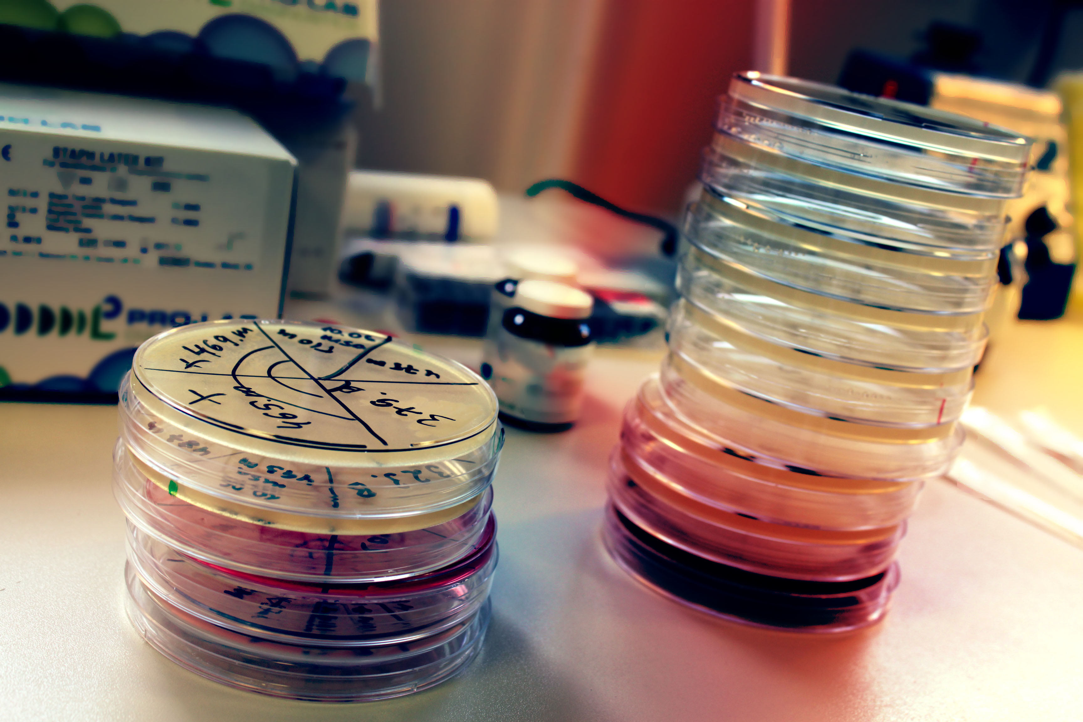 Petri dishes at a laboratory